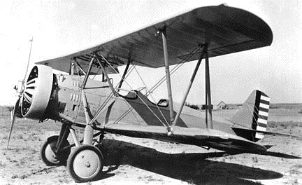 Stearman YBT-3 basic trainer. s/n 31-461